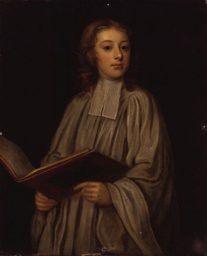 William Croft (1678-1727), Musician and composer